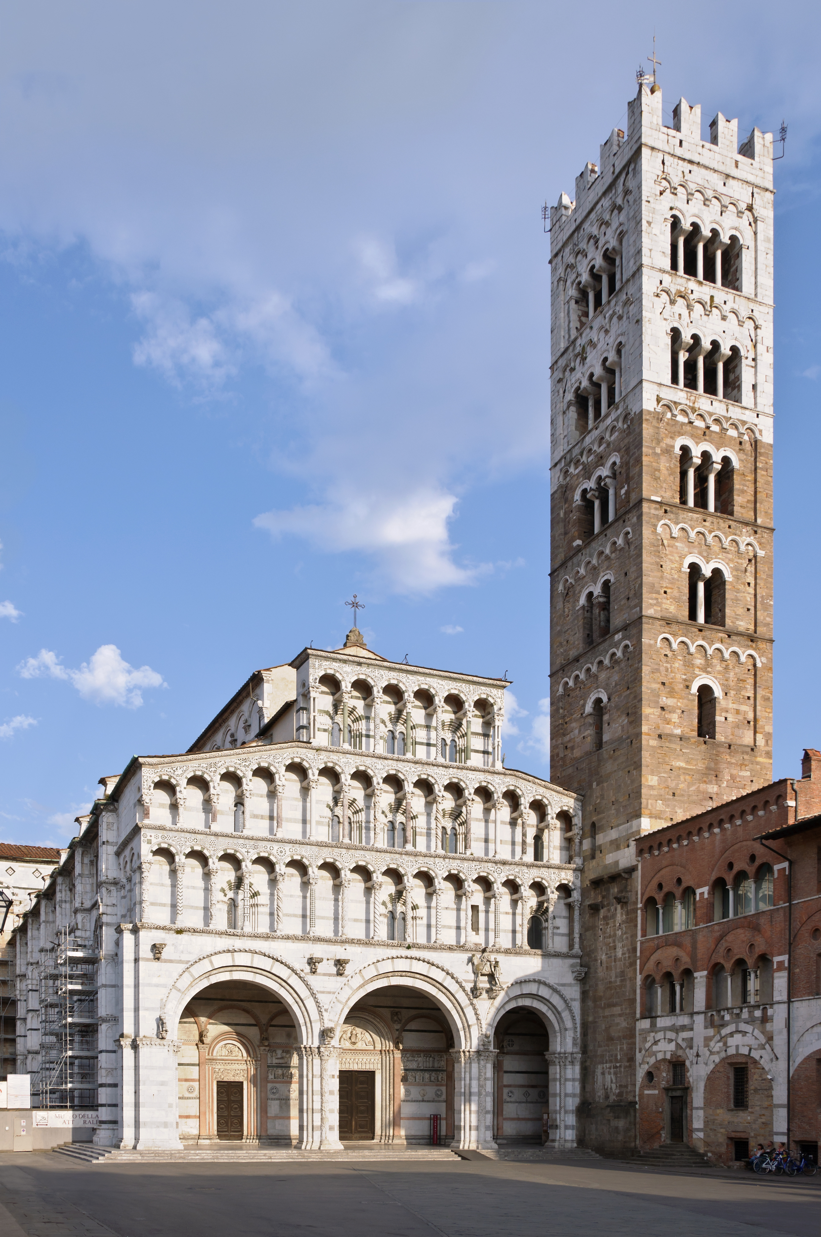 The Cathedral of St Martin (Duomo di Lucca) and its campanile in Lucca, Tuscany, Italy.